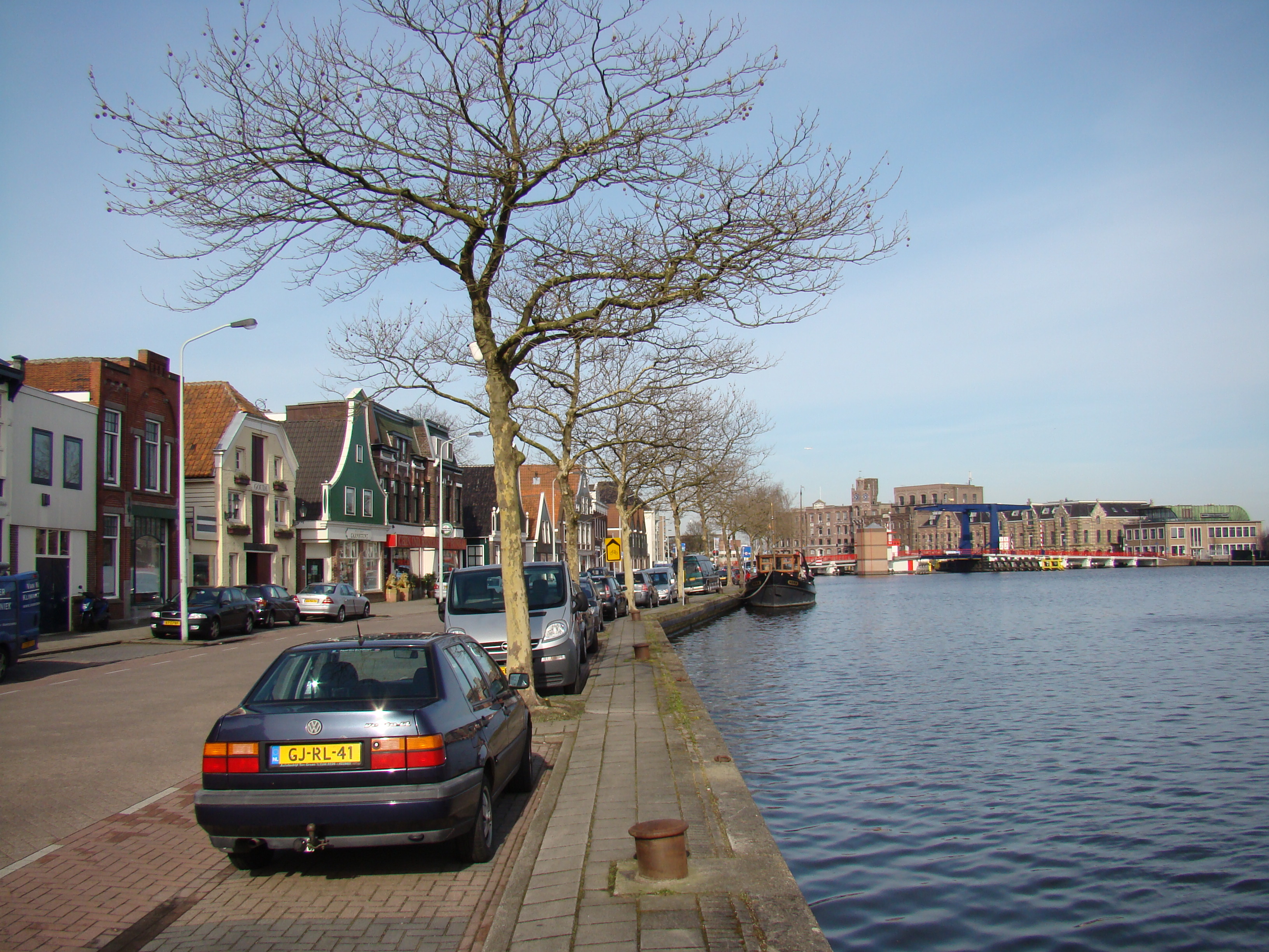 Impressions of Wormerveer, Netherlands